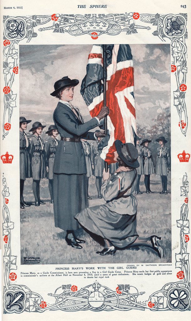 Life of Princess Mary from the Sphere Number celebrating her marriage to Viscount Lascelles, 1922.